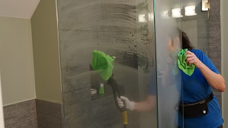 bathroom steam cleaning